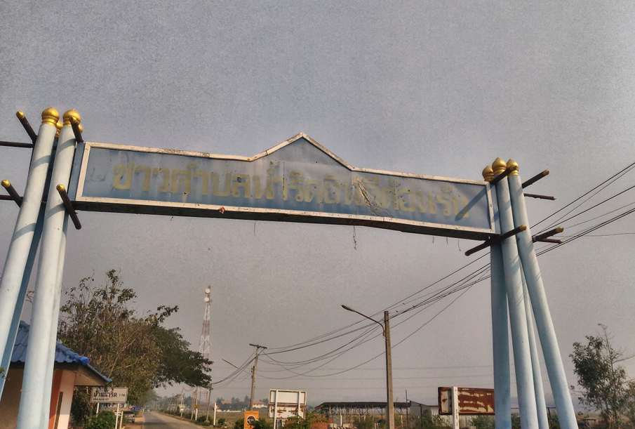 Ban Nam Rid, Uttaradit